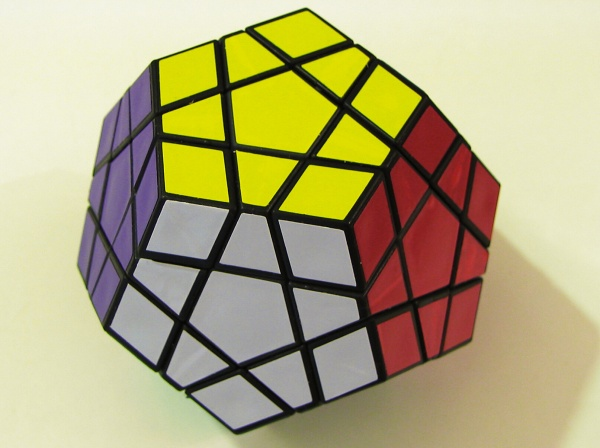 Megaminx